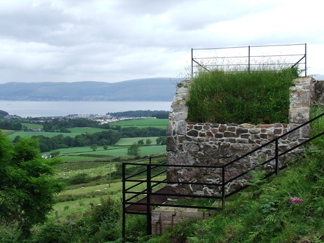 Water control building on Greenock Cut This recently restored small building contains sluice and pulley aparatus to control the water level of the cut. Inverkip and the Clyde are visible beyond.